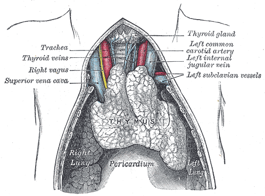 The thymus and its adjacent structures Thymus